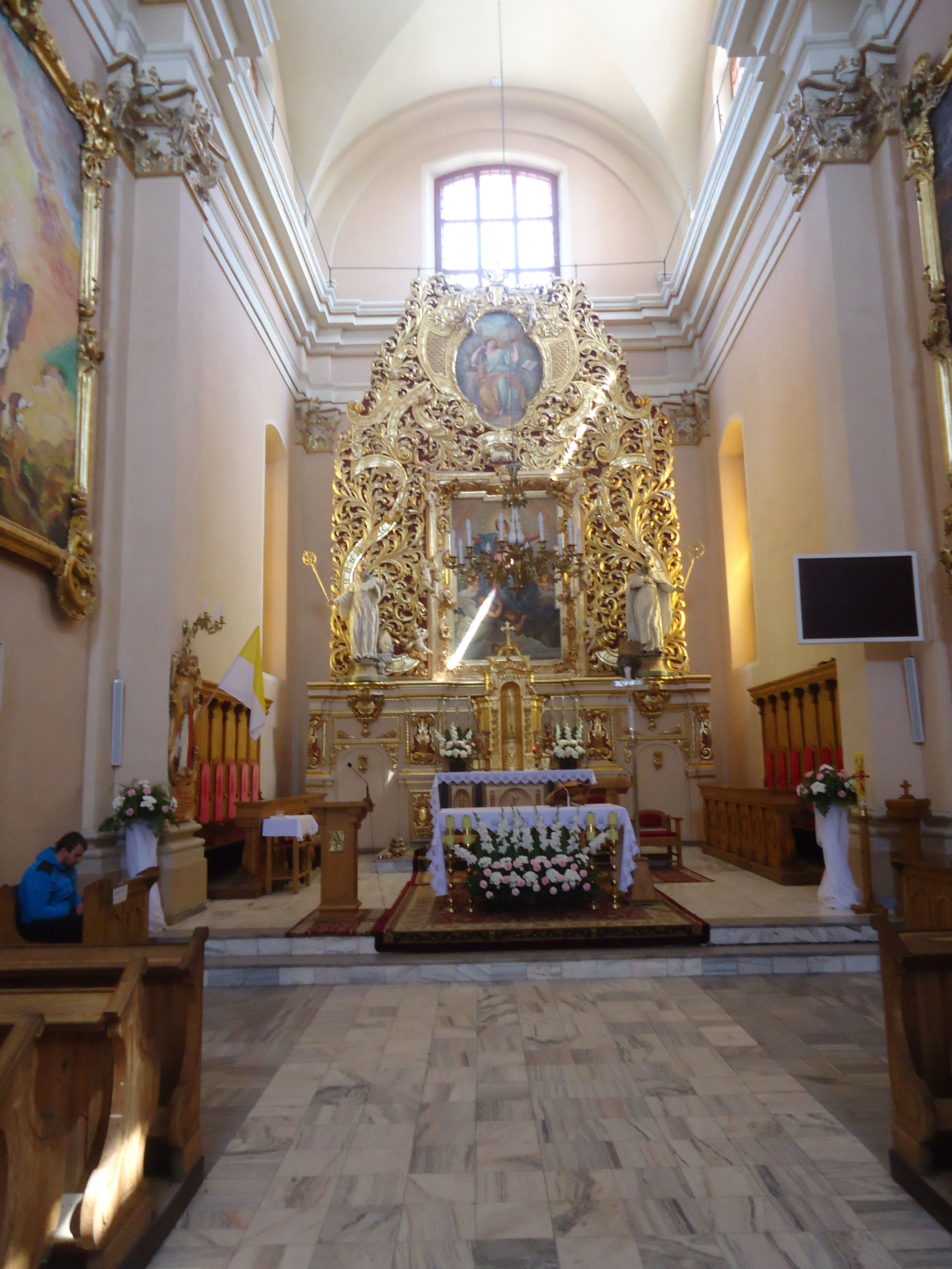 This is a photography of protected area with CRFOP ID PL.ZIPOP.1393.PN.2